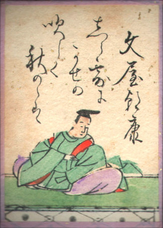 A portrait of Bunya no Asayasu; illustration from an uta-garuta playing card for Hyakunin Isshu, created in the Edo period.